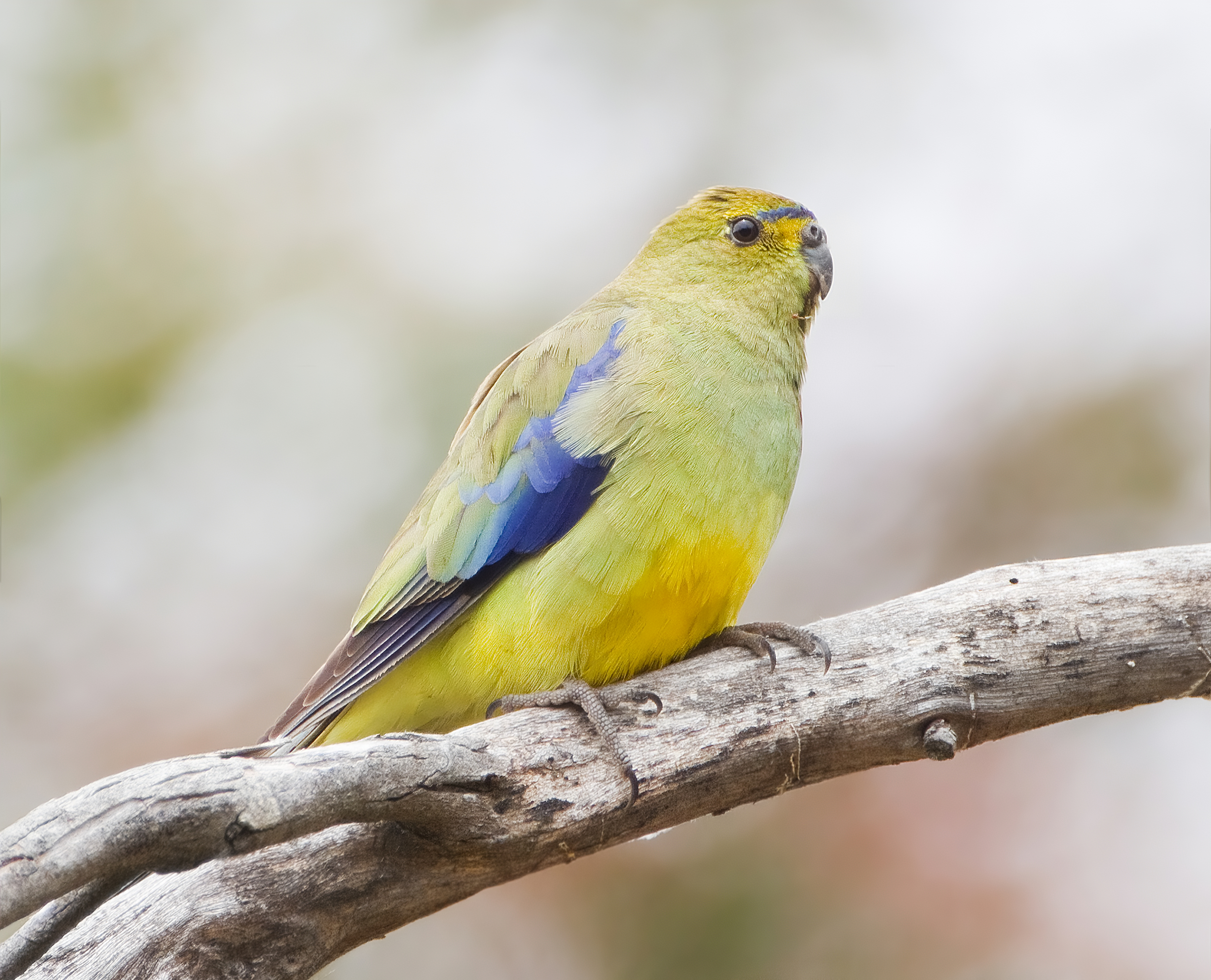 Blue-winged Parrot (Neophema chrysostoma), Mortimer Bay, Tasmania, Australia.